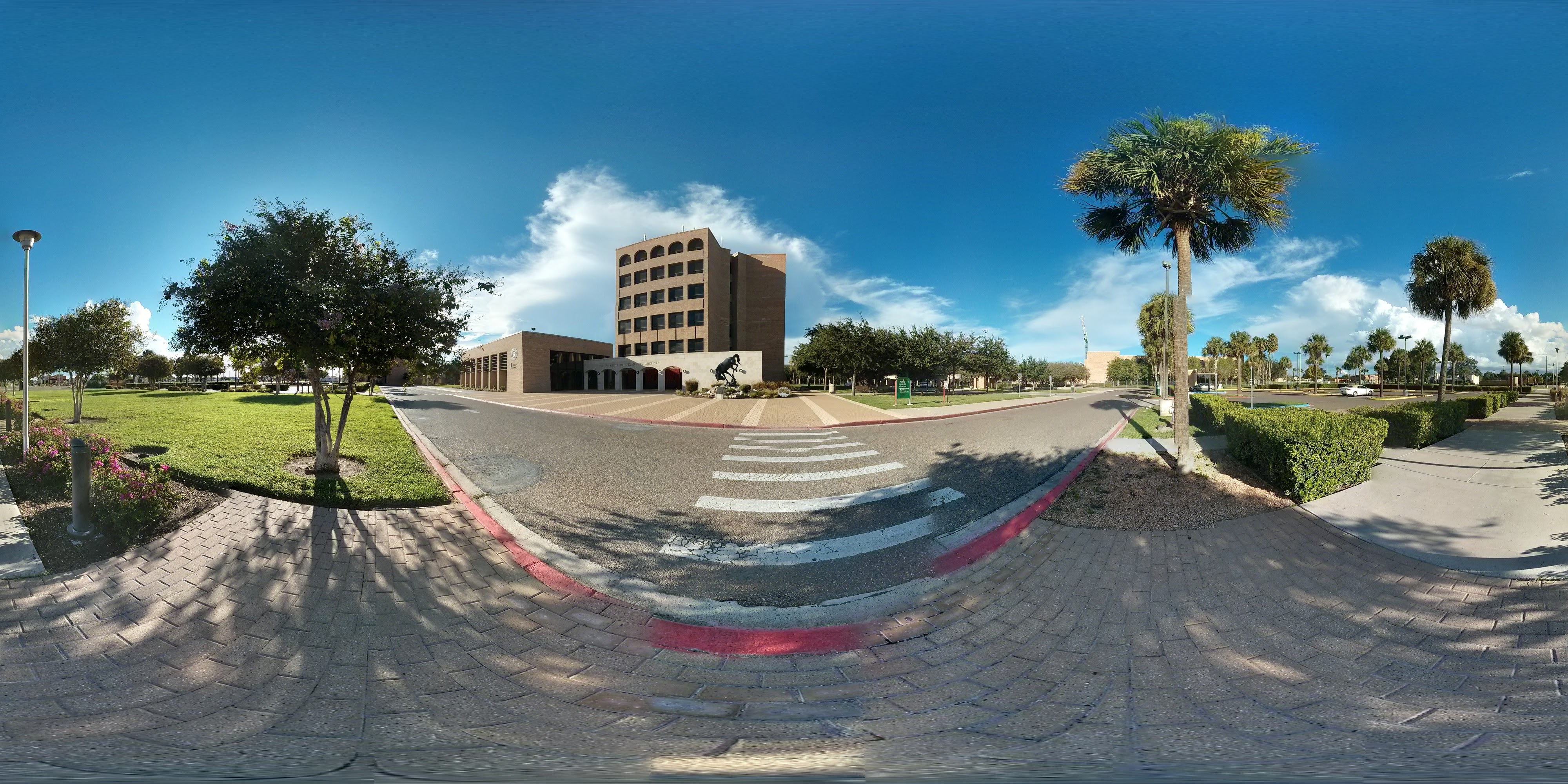 Front of the University of Texas Pan American. In this picture: the famous bronc statue, the executive tower (right in front of the statue), the visitors parking lot. #UTPA #PanAm